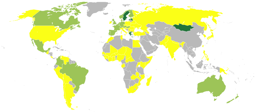 Green parties in national governments (dark green), national parliaments (light green) and without national seats (yellow). References for this description (or part of this) or for the depiction in the file are not provided. Reason: By what date? What source is used for this map?.